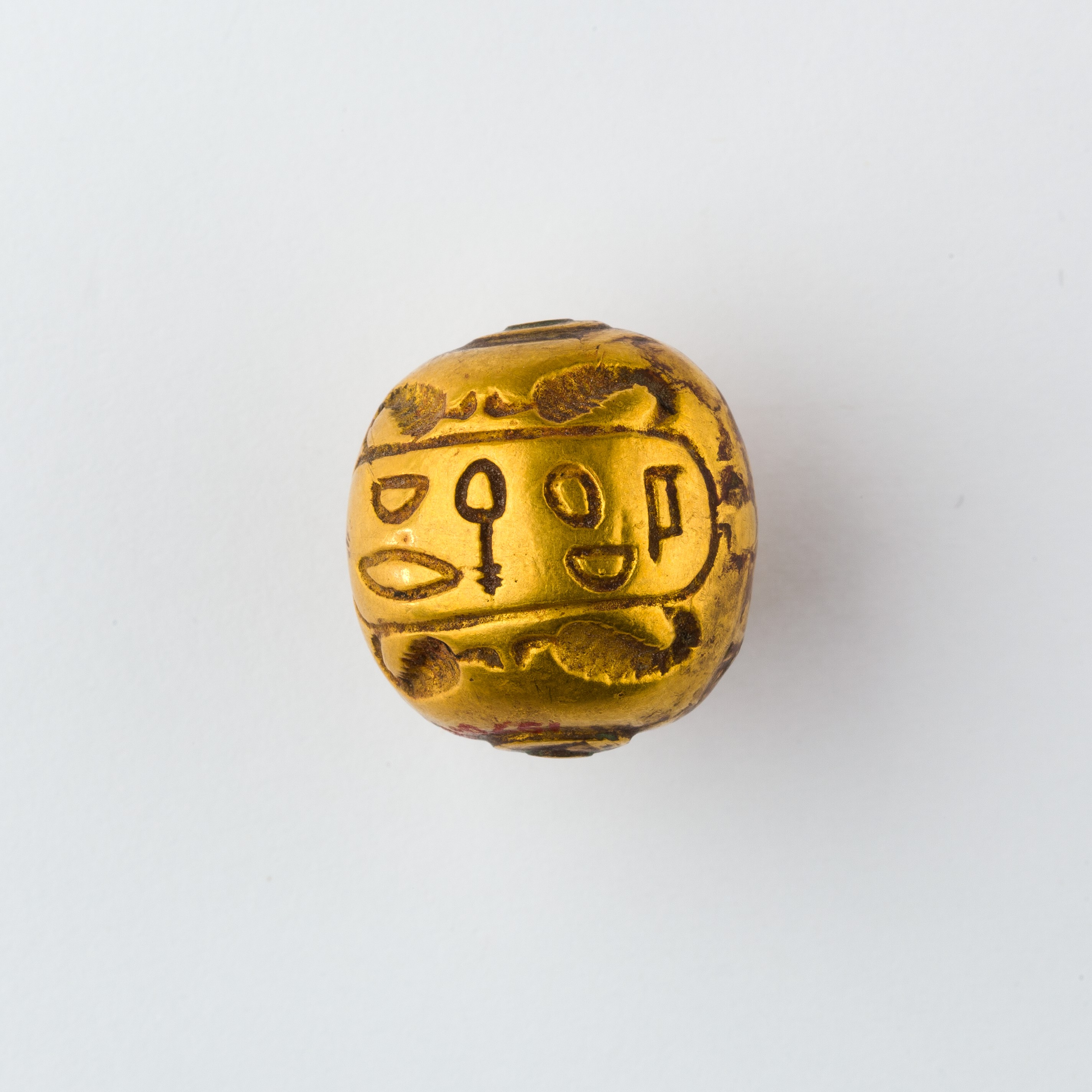 Bead, Ramesses II, Isetnefret